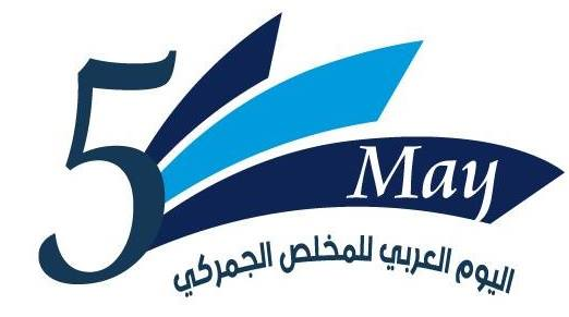 شعار اليوم العربي للمخلصين الجمركيين الذي اعتمده الاتحاد العربي للمخلصين الجمركيين كيوم سنوي للمخلص الجمركي العربي بموافقه من مجلس الوحده الاقتصادية العربية وجامعة الدول العربية